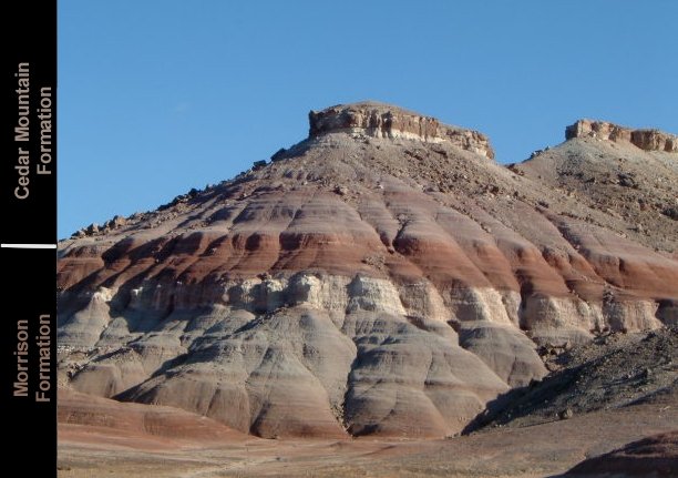 Typical exposure of the Cedar Mountain Formation overlying the Morrison Formation, south of Green River Utah